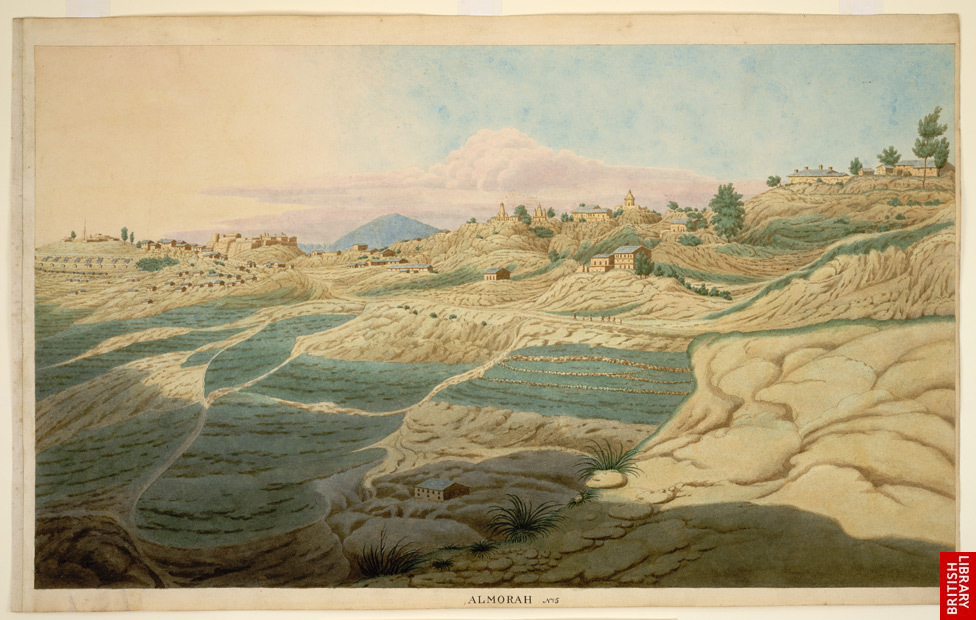 Fort of Lal Mandi, (later renamed Fort Moira, after Lord Moira , the Governor-General of India), after the Gurkha war, (1814-1816) Almora, 1815. Also seen is the newly formed cantonment.